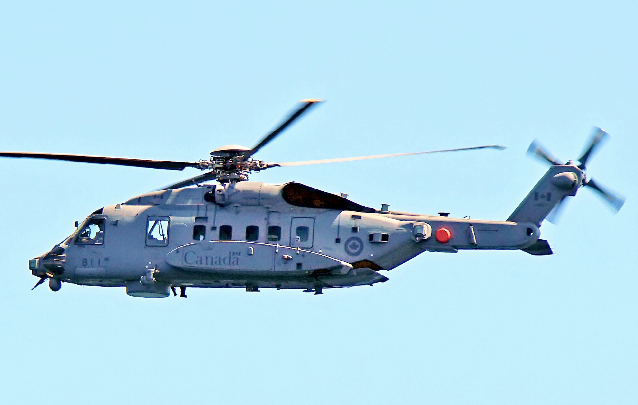 Helicopter checking out the Tall Ships. A Sikorsky CH-148 Cyclone twin-engine, multi-role shipboard helicopter of the Canadian Forces. The CH-148 is designed for shipboard operations and is intended to replace the venerable CH-124 Sea King. The Cyclone is operated by the Royal Canadian Air Force (RCAF) and conducts anti-submarine warfare (ASW), surveillance, and search and rescue missions from Royal Canadian Navy warships.